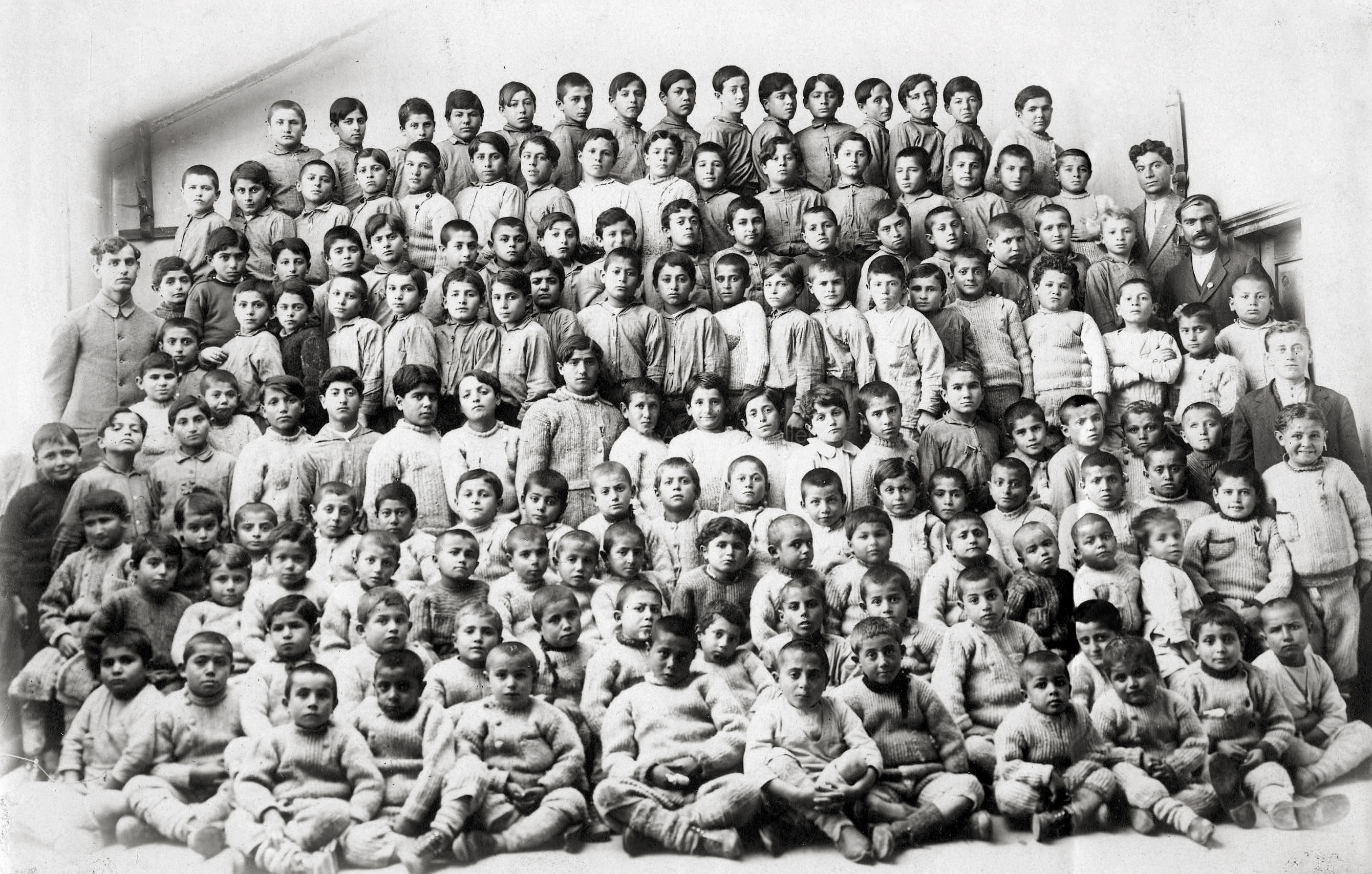 Orphanages - Merzifon (Turkey) Armenian Orphans 1918 After the end of World War I, Anatolia College sheltered 2,000 orphans.